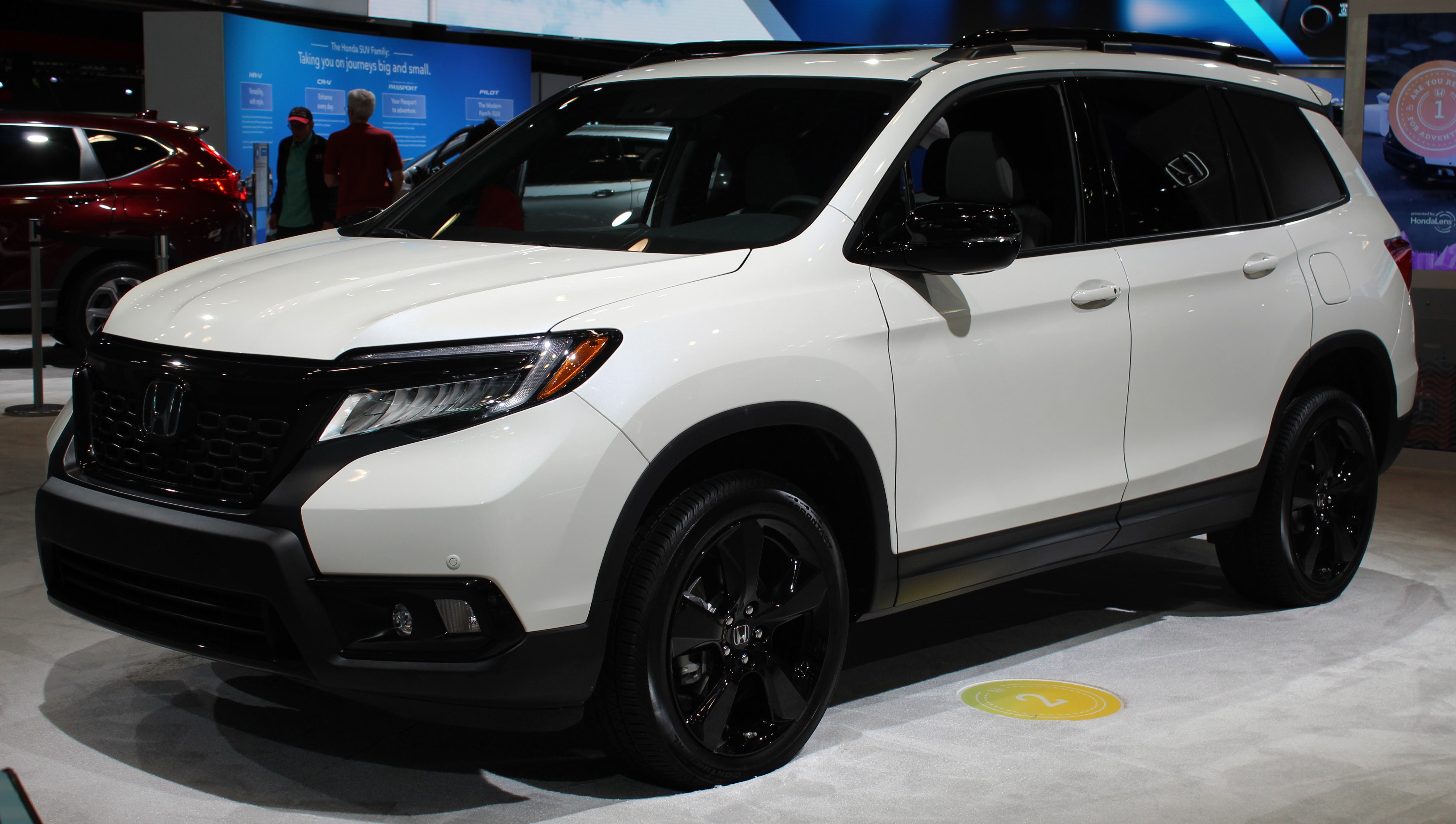 A 2019 Honda Passport Elite photographed during the 2019 New York International Auto Show, in Hudson Yards, Manhattan, NYC